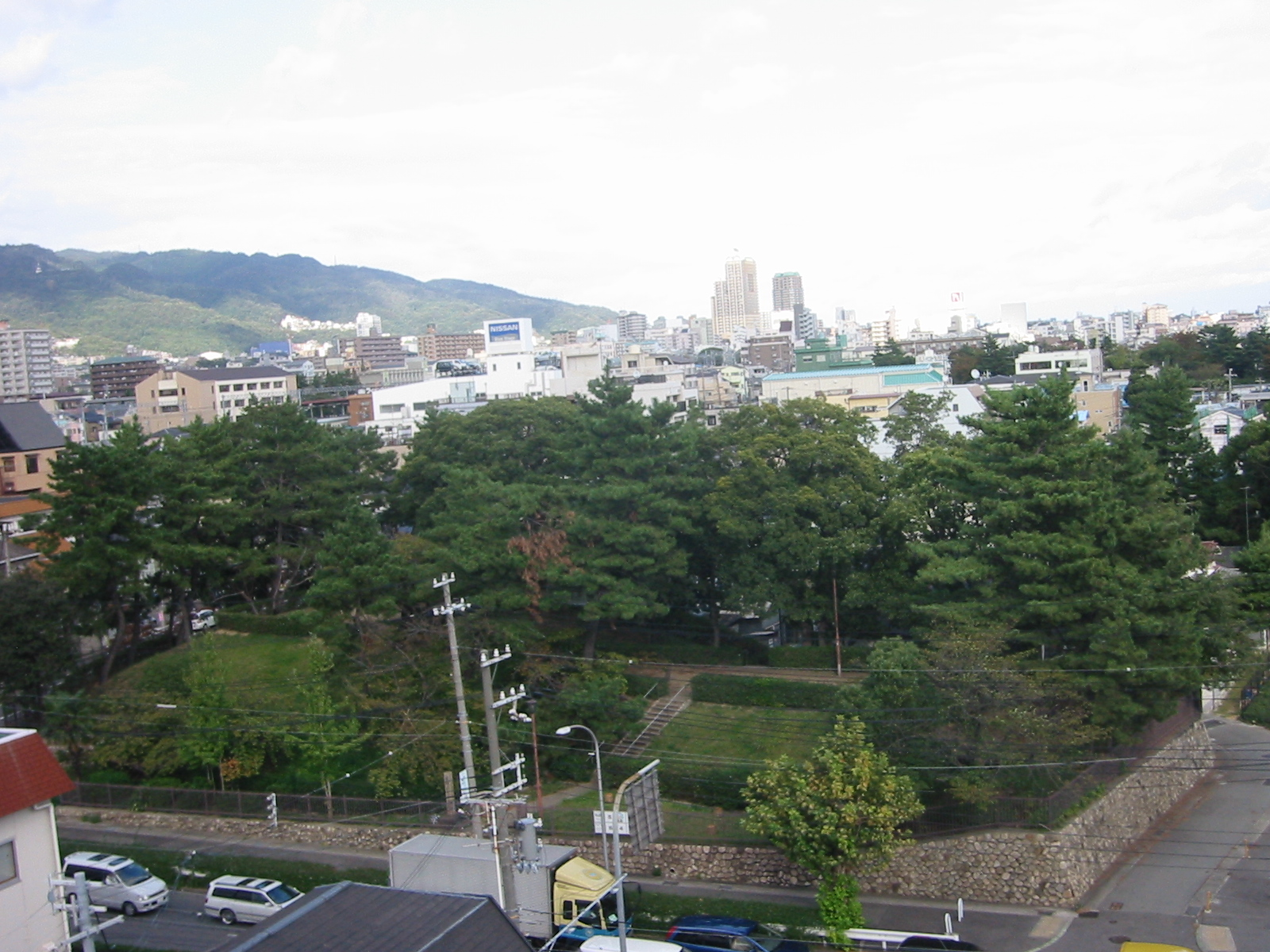 A park in the Japanese city of Kobe.